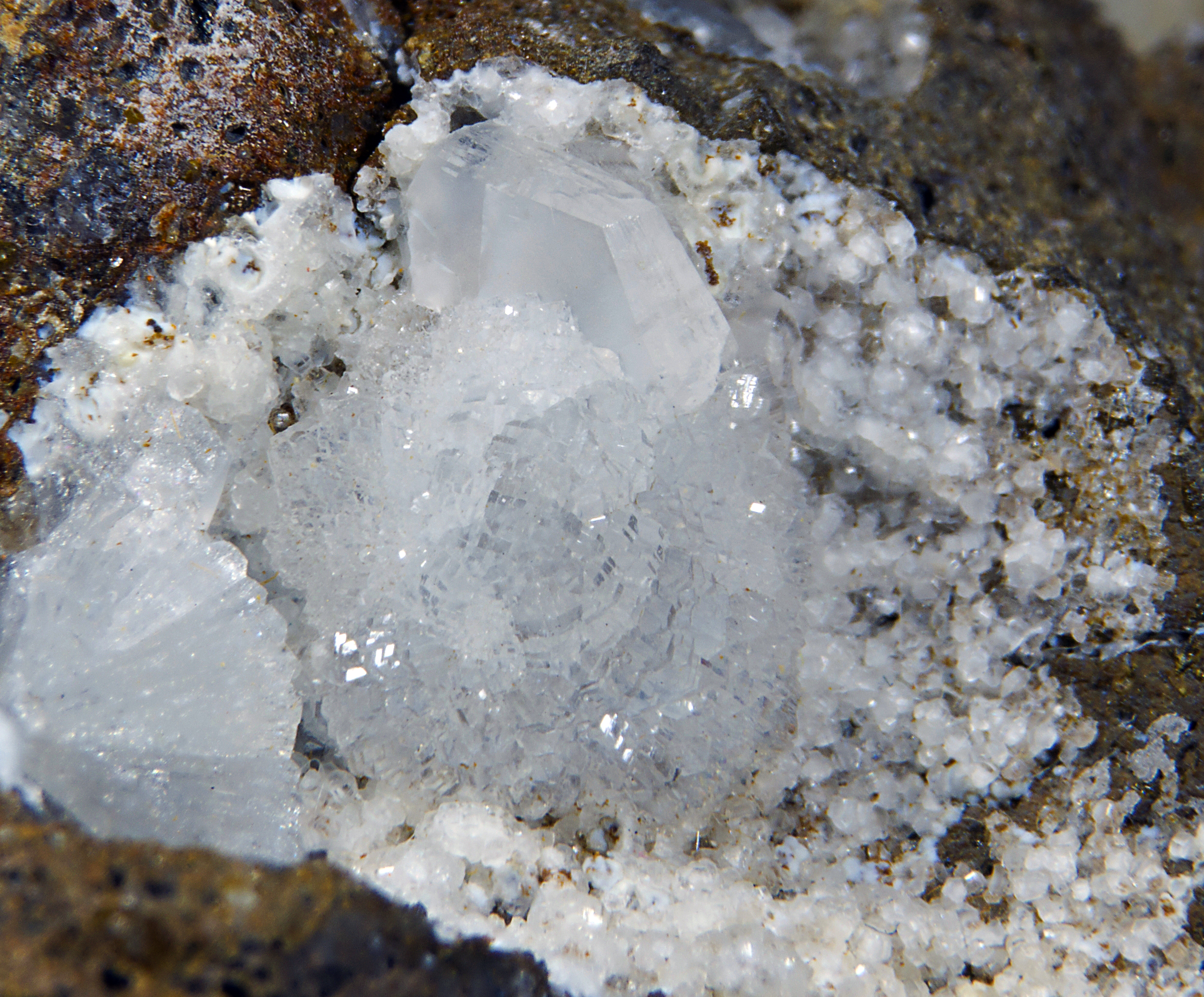 Herschelite (Chabazite-Na) and Phillipsite Locality : Rupe di Aci Castello, Aci Castello, Etna Volcanic Complex, Catania Province, Sicily, Italy. Deposit topotype. Size : View 21mm